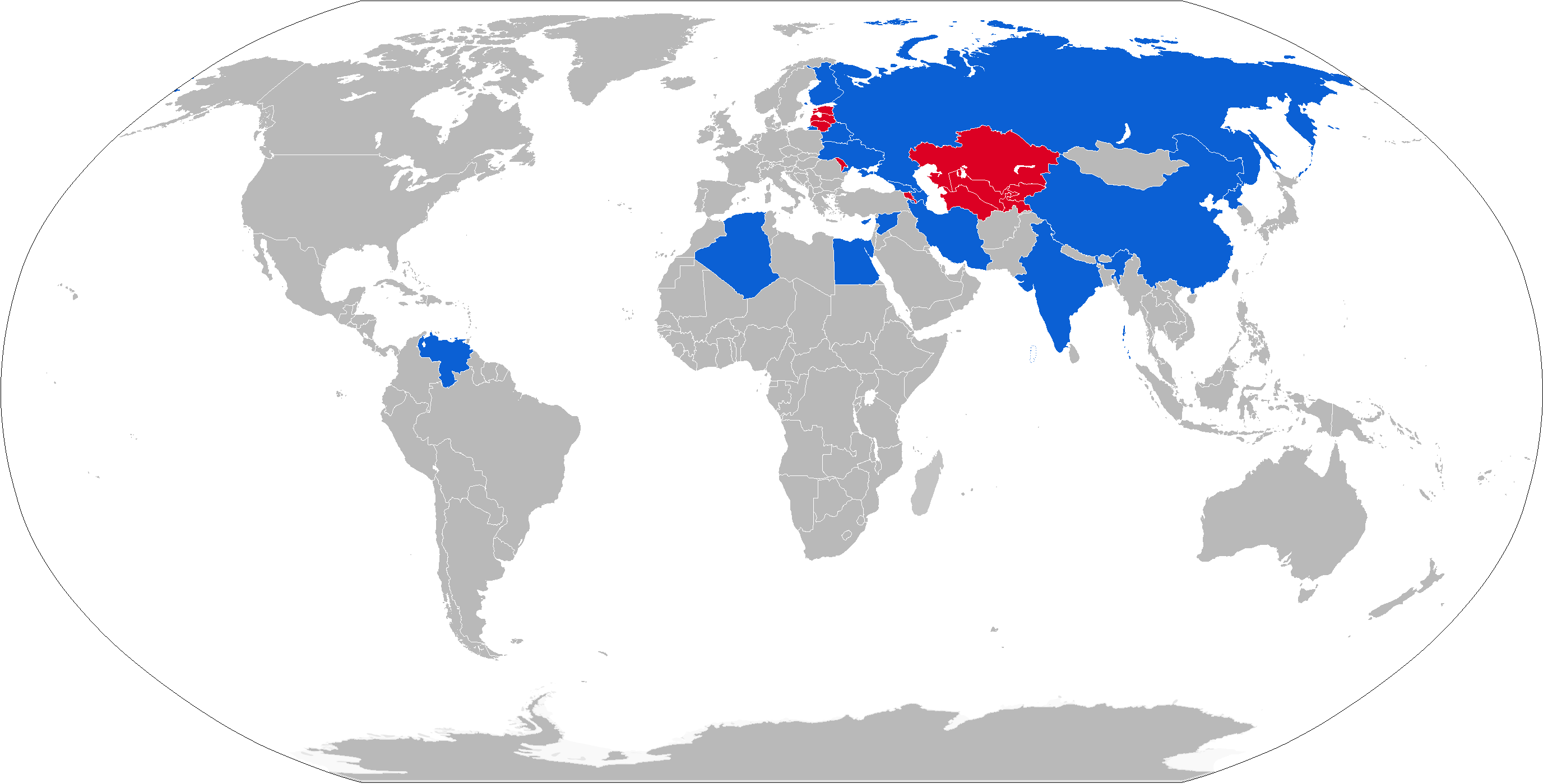 Map with Buk operators in blue and former operators in red